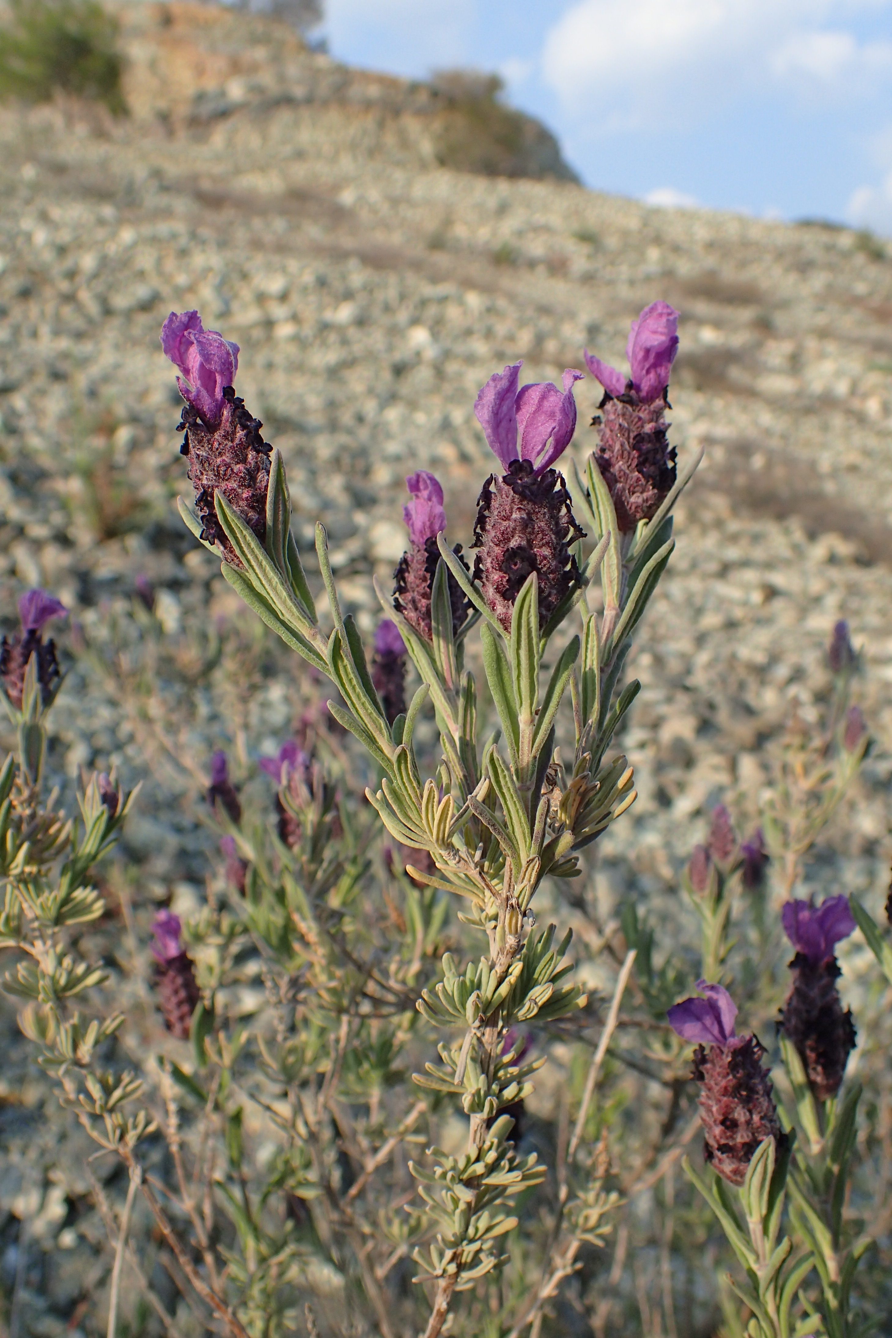 Lavandula stoechas N from Pareklisia, Cyprus